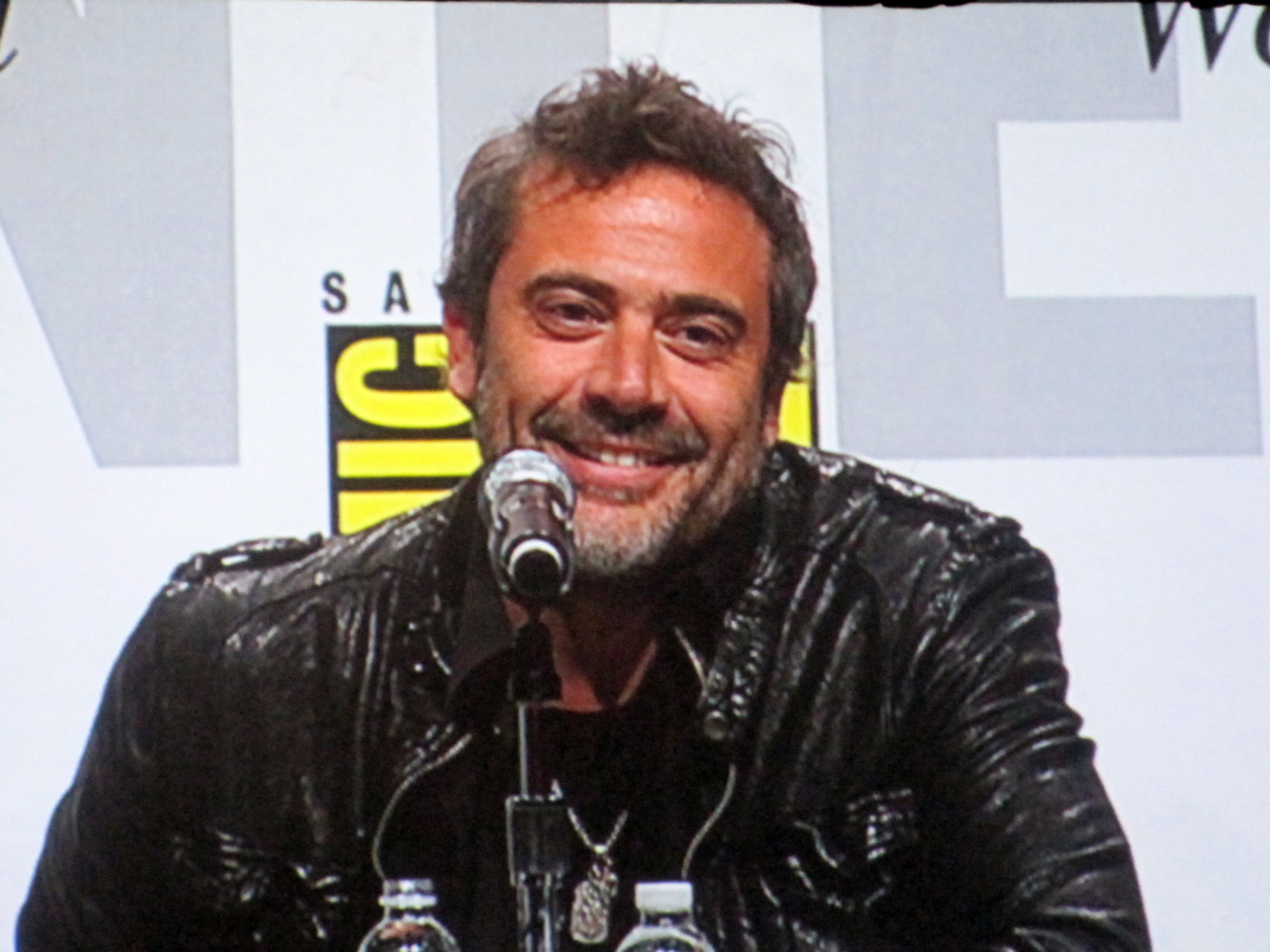 Actor Jeffrey Dean Morgan at The Losers film panel at WonderCon 2010.